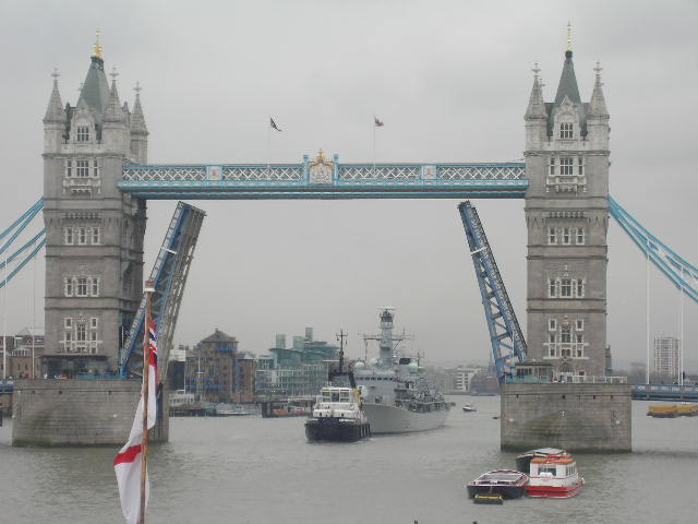 Tower bridge opening to allow HMS Northumberland through, April 2007